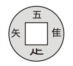 Famous Tsukubai inscription at Ryōan-ji temple in Kyoto, a poem: The characters are without significance when read alone. In combination with 口 (kuchi) the characters 五 隹 龰 矢 become 吾, 唯, 足, 知. This is read as "ware tada tare o shiru" and translates literally as "I only know plenty" (吾 = ware = I, 唯 = tada = only, 足 = tare = plenty, 知 = shiru = know). The meaning of the phrase is that "what one has is all one needs", expressing the anti-materialistic teachings of buddhism.